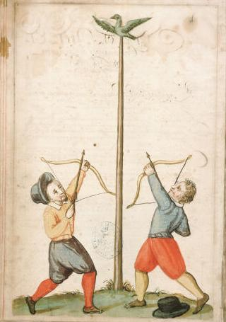 Archers in Avignon, 17th century.